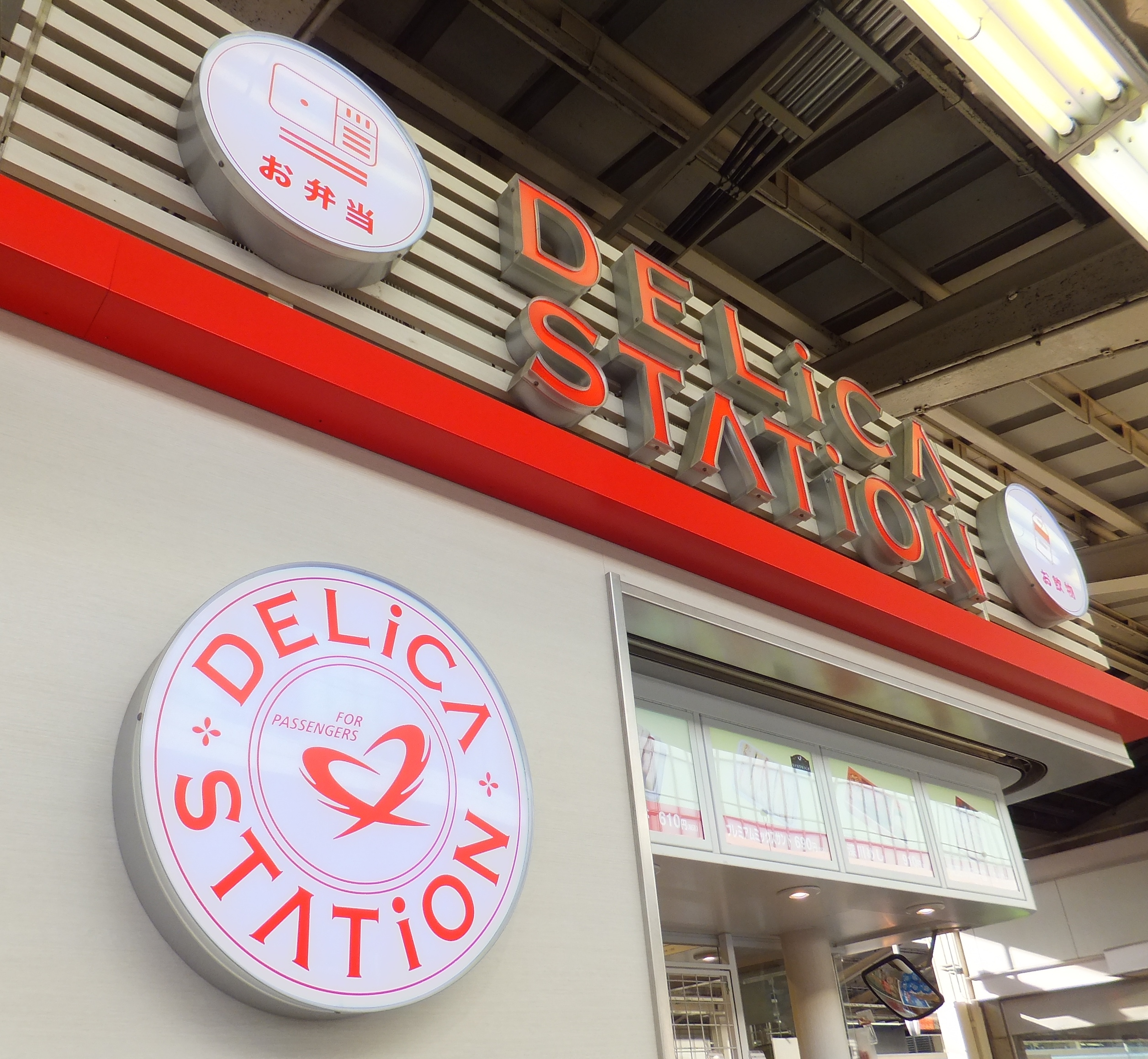 Delica Station shop on the Shinkansen platform #16-17 of Tokyo Station